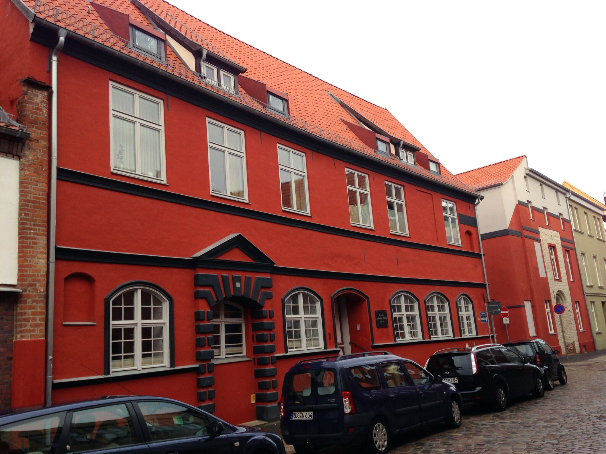 Home of Gottlieb Mohnike, 1814-1841